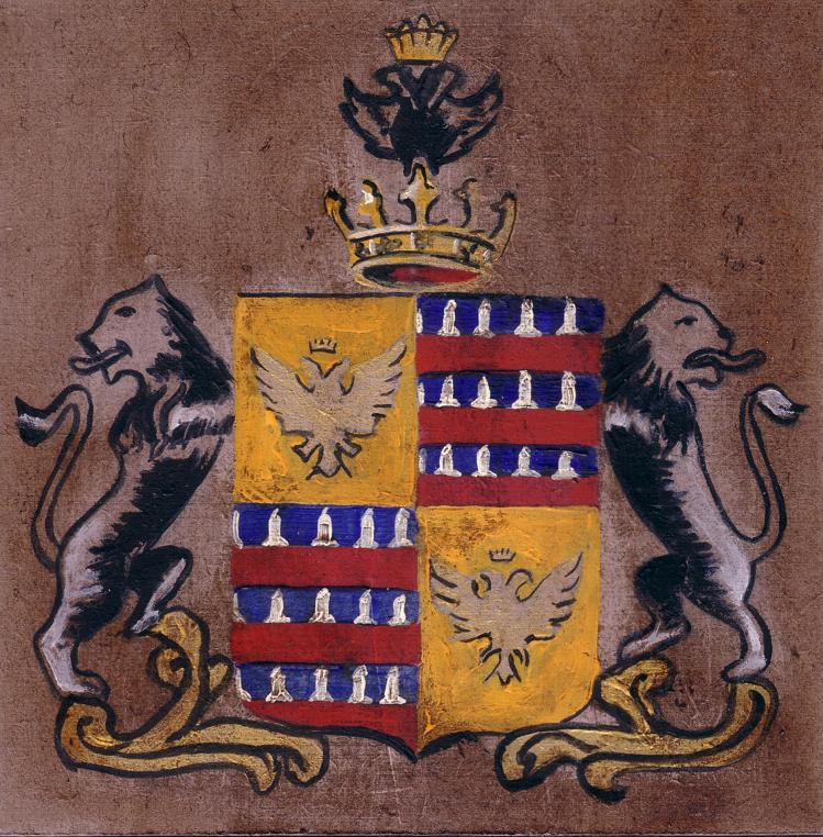 Coat of Arms Gherardini di Montagliari of Florence